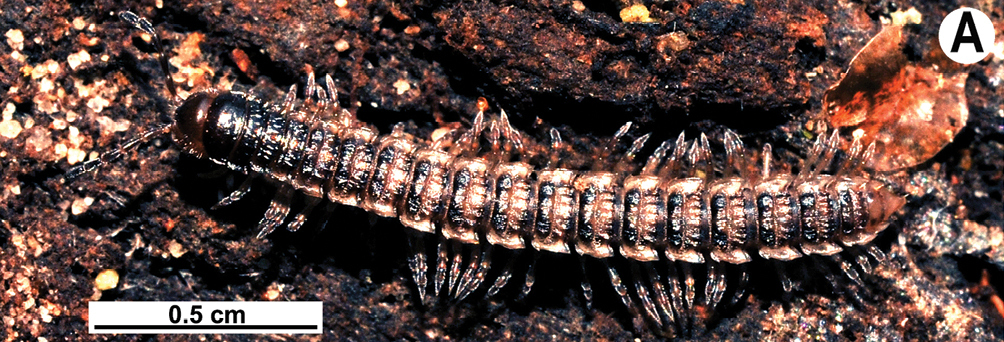 Tylopus corrugatus sp. n., ♂ holotype; A habitus, live coloration B, C anterior part of body, dorsal and lateral views, respectively D, E segments 10 and 11, dorsal and lateral views, respectively F–H posterior part of body, dorsal, ventral and lateral views, respectively I, J sternal cones between coxae 4, subcaudal and sublateral views, respectively.